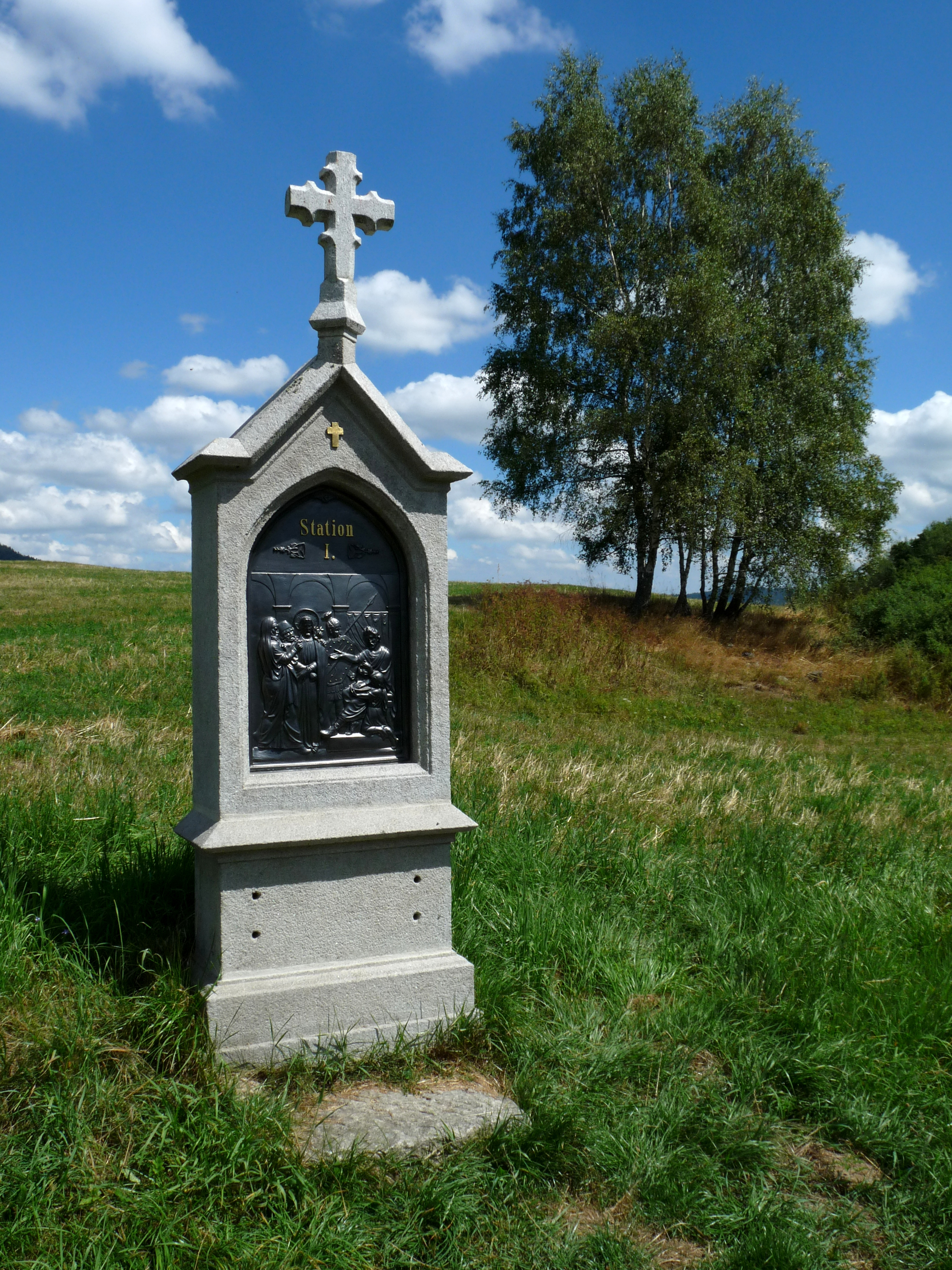 Stations of the Cross to the Chapel of Our Lady of the Snow near the town of Vyšší Brod, South Bohemian Region, Czech Republic.